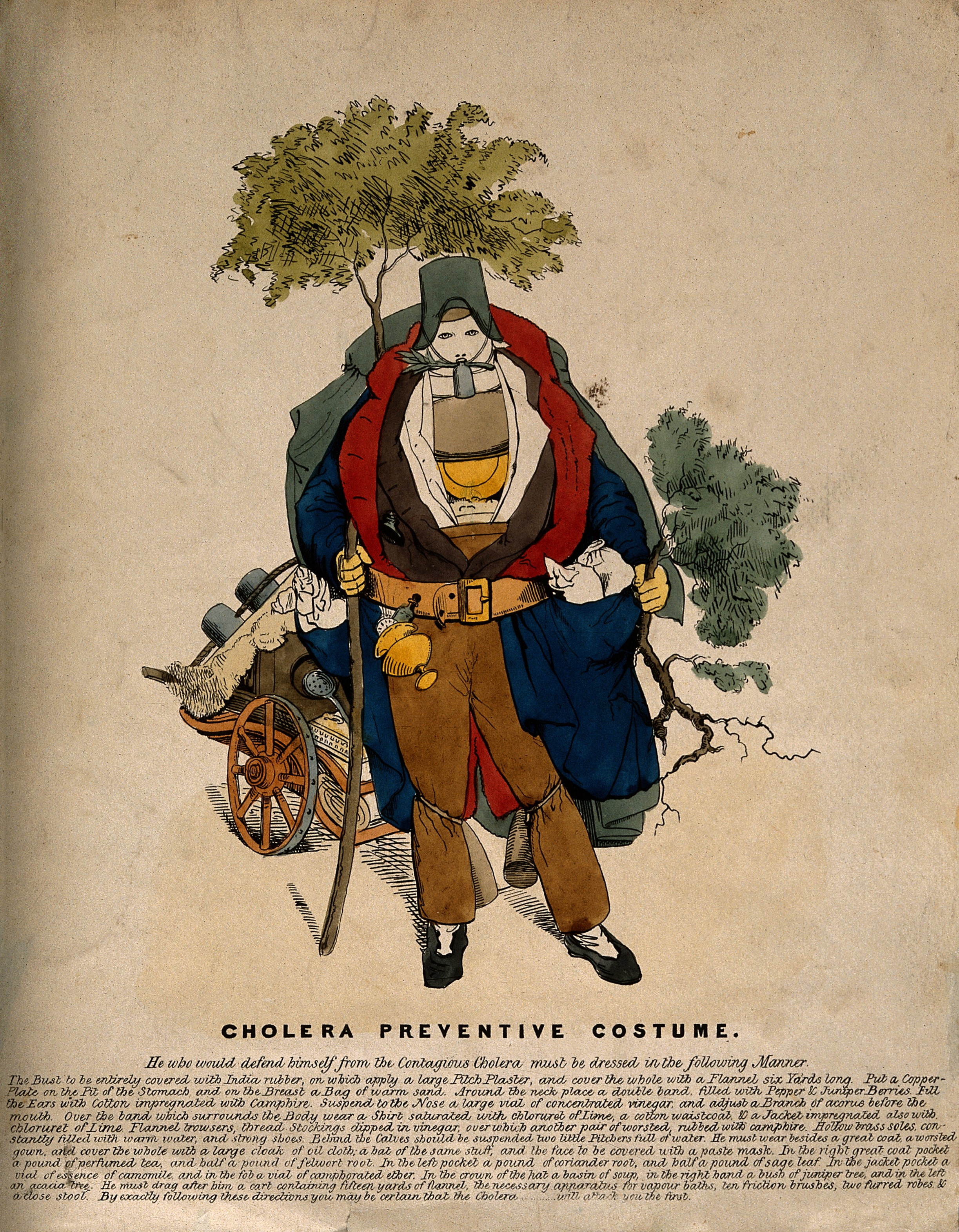 A figure dressed in a cholera safety suit. Coloured etching. English, after a German or French original of 1832. Iconographic Collections Keywords: Epidemics; Cholera; satires; clothing, protective; etchings